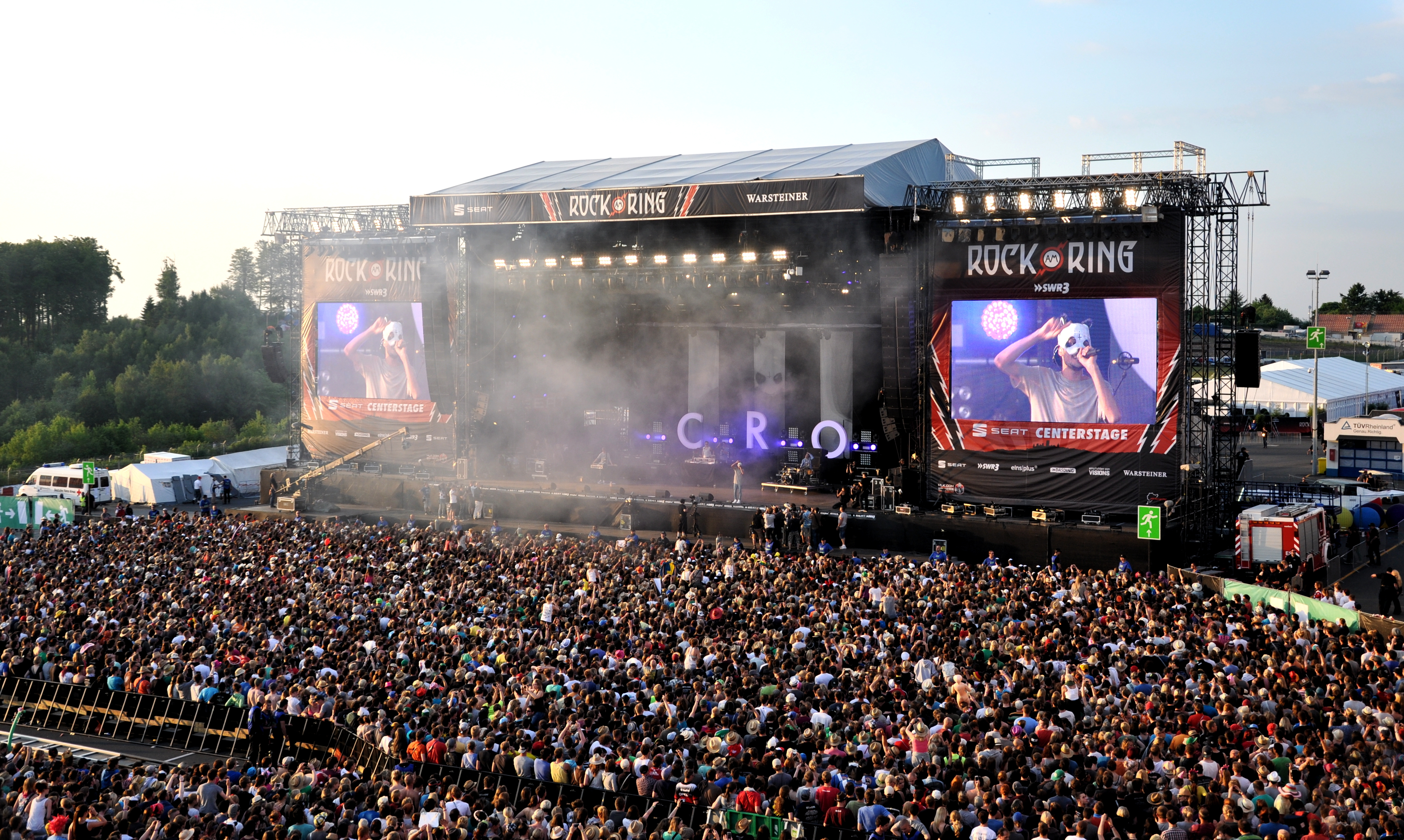 Centerstage at Rock am Ring 2013; Cro